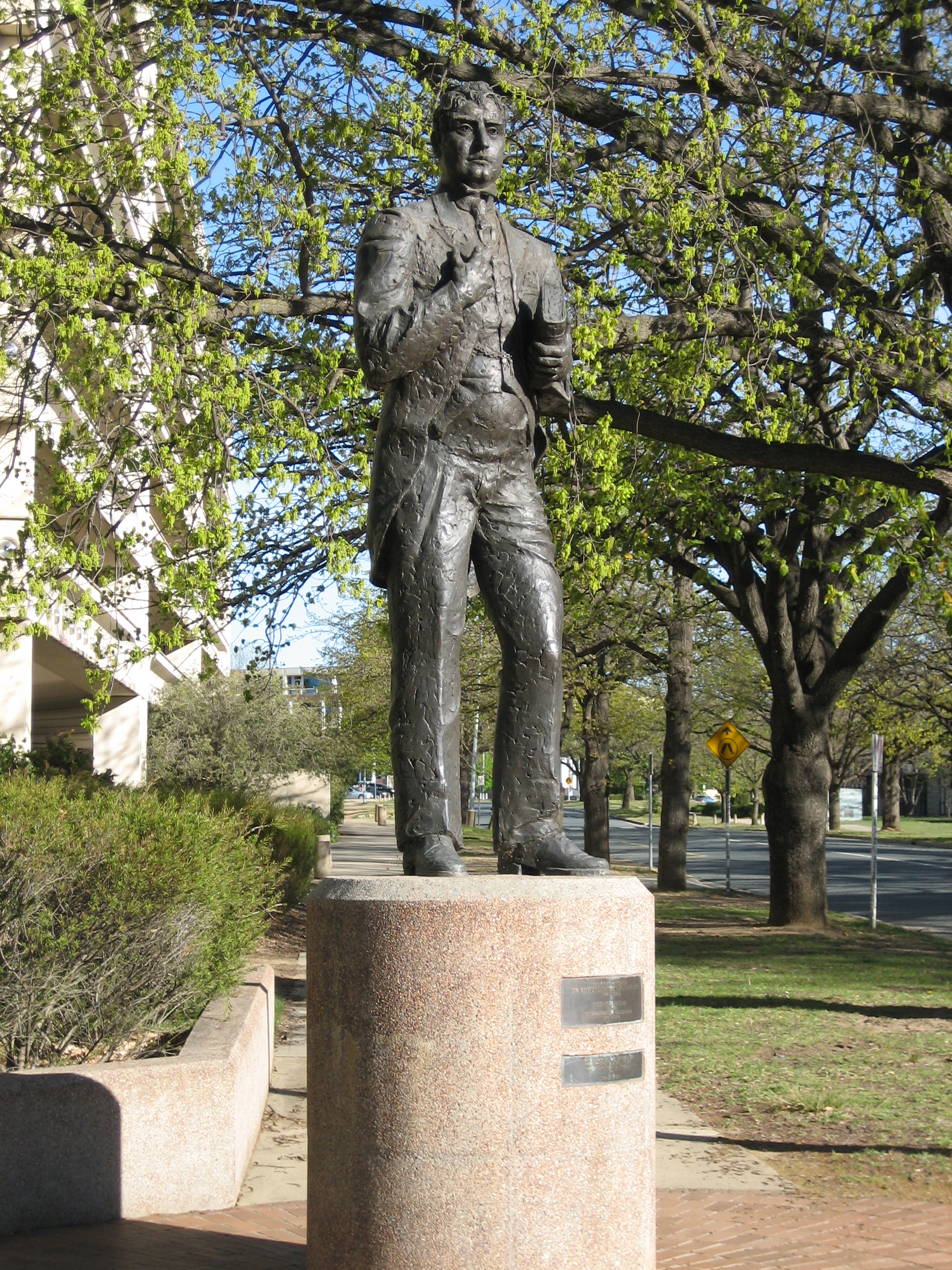 The Right Honorable SIR EDMUND BARTON PC, GCMG, KC (1849-1920) First Prime Minister of the Commonwealth of Australia 1901-1903. Statue of Edmund Barton by Marc Clark (commissioned in 1981, unveiled on 11 July 1983), located outside Barton Offices, in Barton, Canberra, Australia.